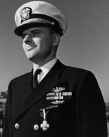 Photo #: 80-G-472641 Commander George L. Street III, USN, Commanding Officer of USS Tirante (SS-240) At the Washington Navy Yard, D.C., just after receiving the Navy Cross from Secretary of the Navy James Forrestal on 19 October 1945. He was awarded the medal for extraordinary ship-hunting efforts during Tirante's war patrols earlier in the year. Street also received the Medal of Honor for "conspicuous gallantry and intrepidity" in action against Japanese forces on 14 April 1945. The ribbon for the Medal of Honor is in the top row of his ribbons, immediately below his submarine service "dolphins". Official U.S. Navy Photograph, now in the collections of the National Archives.